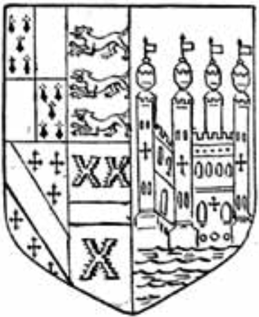 Drawing of heraldic shield sculpted on chest tomb of Anne Rawson (c.1515 – 20 February 1588), wife of Sir Michael Stanhope (before 1508 – 26 February 1552) of Shelford in Nottinghamshire, showing arms of Stanhope impaling Rawson (Gules, a four square castle in perspective with as many towers and cupolas one at each angle or standing in water azure). Stanhope quarterly of 4: 1: Quarterly ermine and gules (Stanhope); 2: Vert, three greyhounds courant in pale or (Maulovel of Rampton, Notts, an heiress of Stanhope (blazon per: Thomas Robson, The British herald)) 3: Sable, a bend between six cross-crosslets argent (Longvillers of Tuxford, Nottinghamshire, a Maulovel heiress (Thoroton's History of Nottinghamshire: Volume 3, Republished With Large Additions By John Throsby, Originally published by J Throsby, Nottingham, 1796, pp.241-248[1]; Sometime visible in Tuxford Church per Thoroton, pp.219-226: "And here was also, Arme Johannis Lungvillers Patroni istius Ecclesiæ, viz: Sab. a Bend between six Crossecroslets Arg. which are upon the shield of an old effegies, on an ancient tomb, towards the North side of the Chancel." 4: Argent, three saltires .... (?)